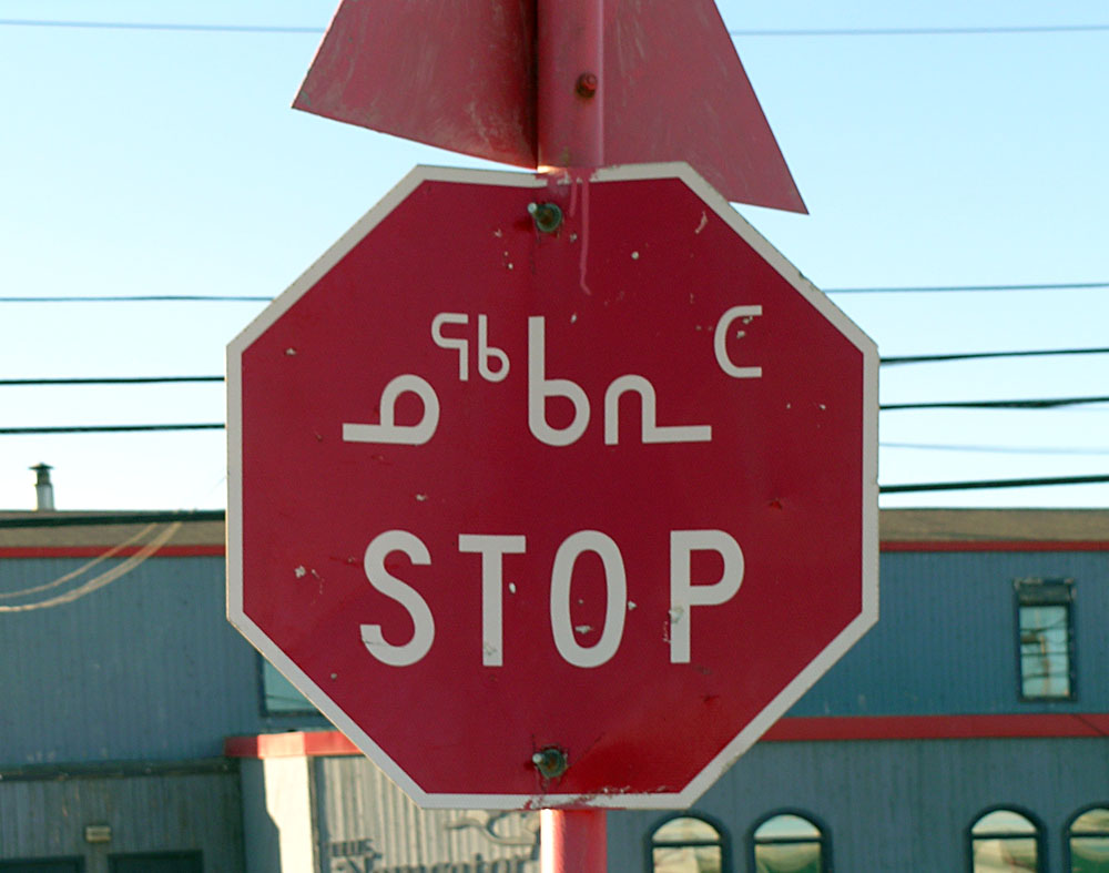 Red octagonal Stop sign with "STOP" in Inuktitut: ᓄᕐᒃᑲᕆᑦ, in Iqaluit, Nunavut.